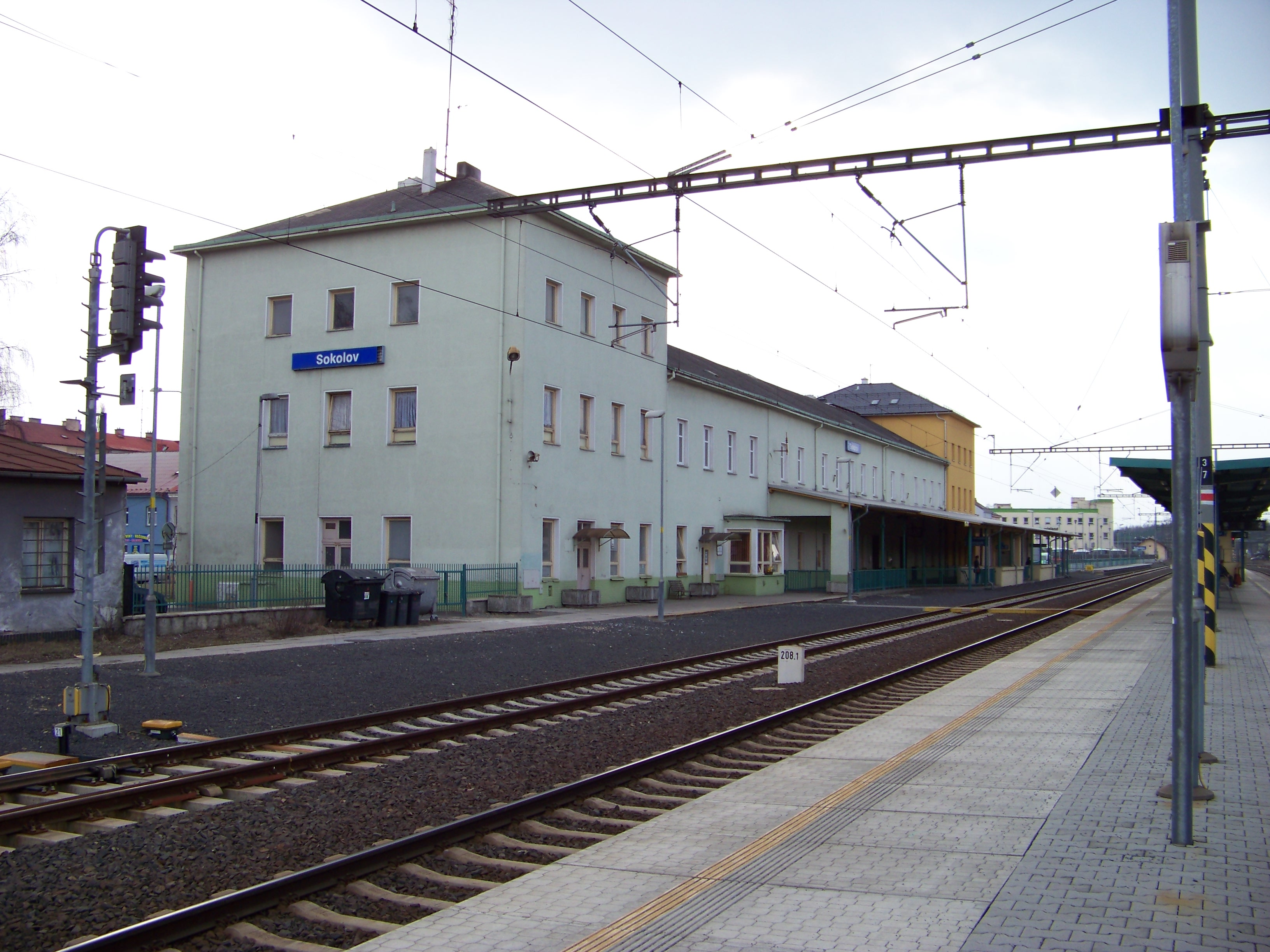 Sokolov, Sokolov District, Karlovy Vary Region, the Czech Republic. A train station. - OpenStreetMap(Info)